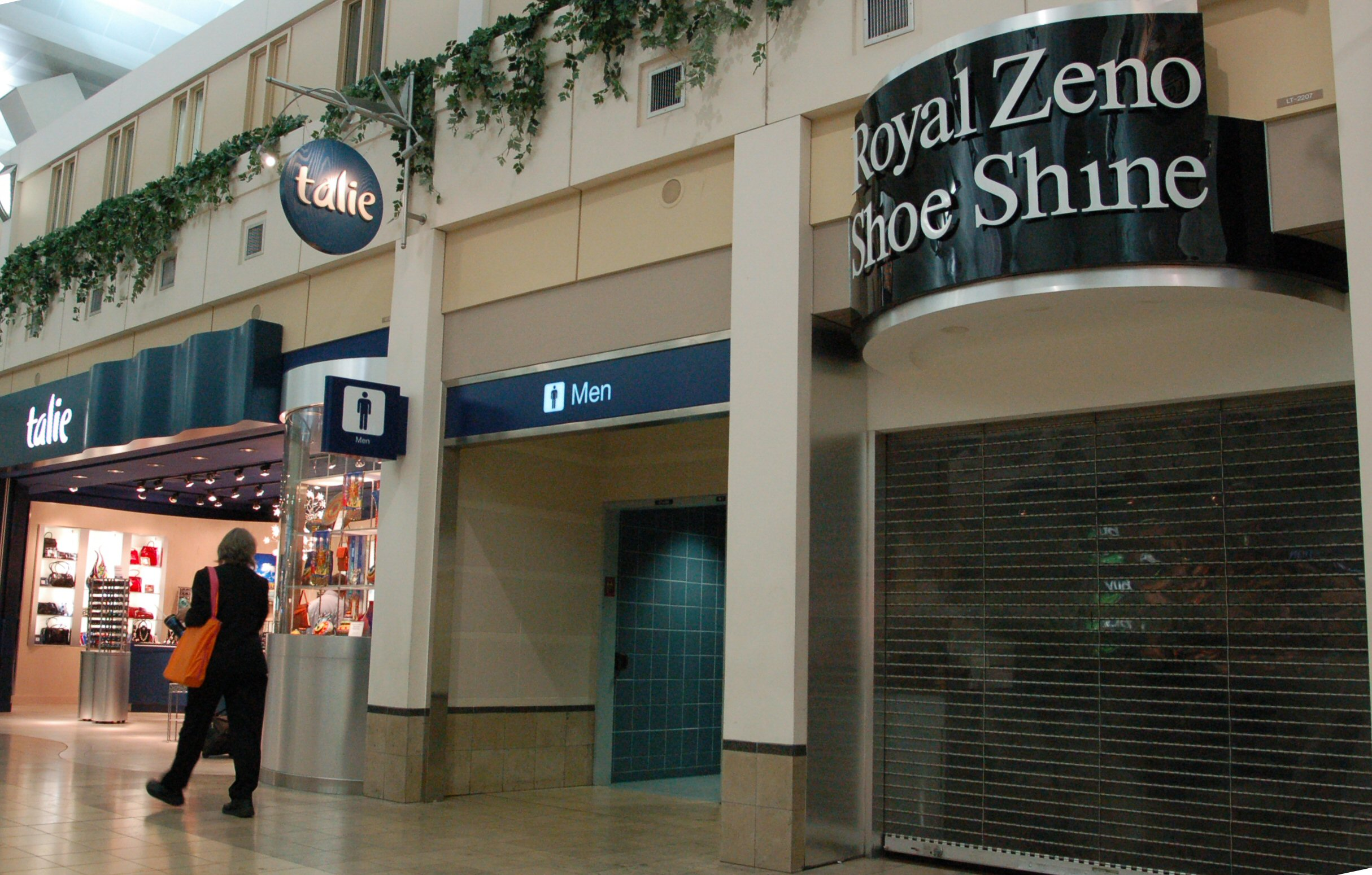 Larry Craig bathroom in the Minneapolis–Saint Paul International Airport